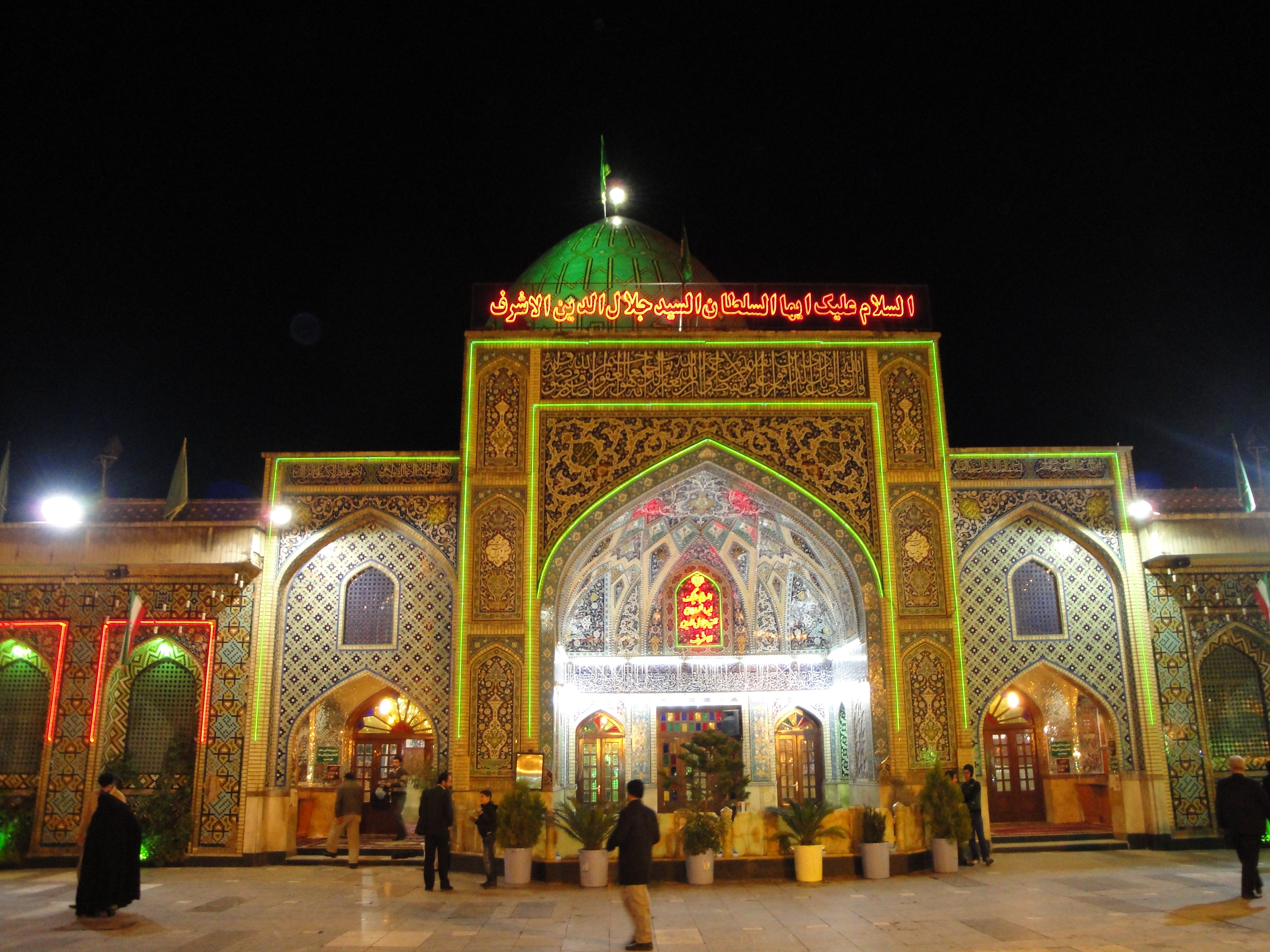 Jalaleddin Ashraf shrine in Astane Ashrafie